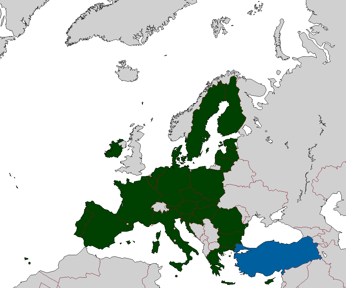 Map of the European Union, along side Turkey.